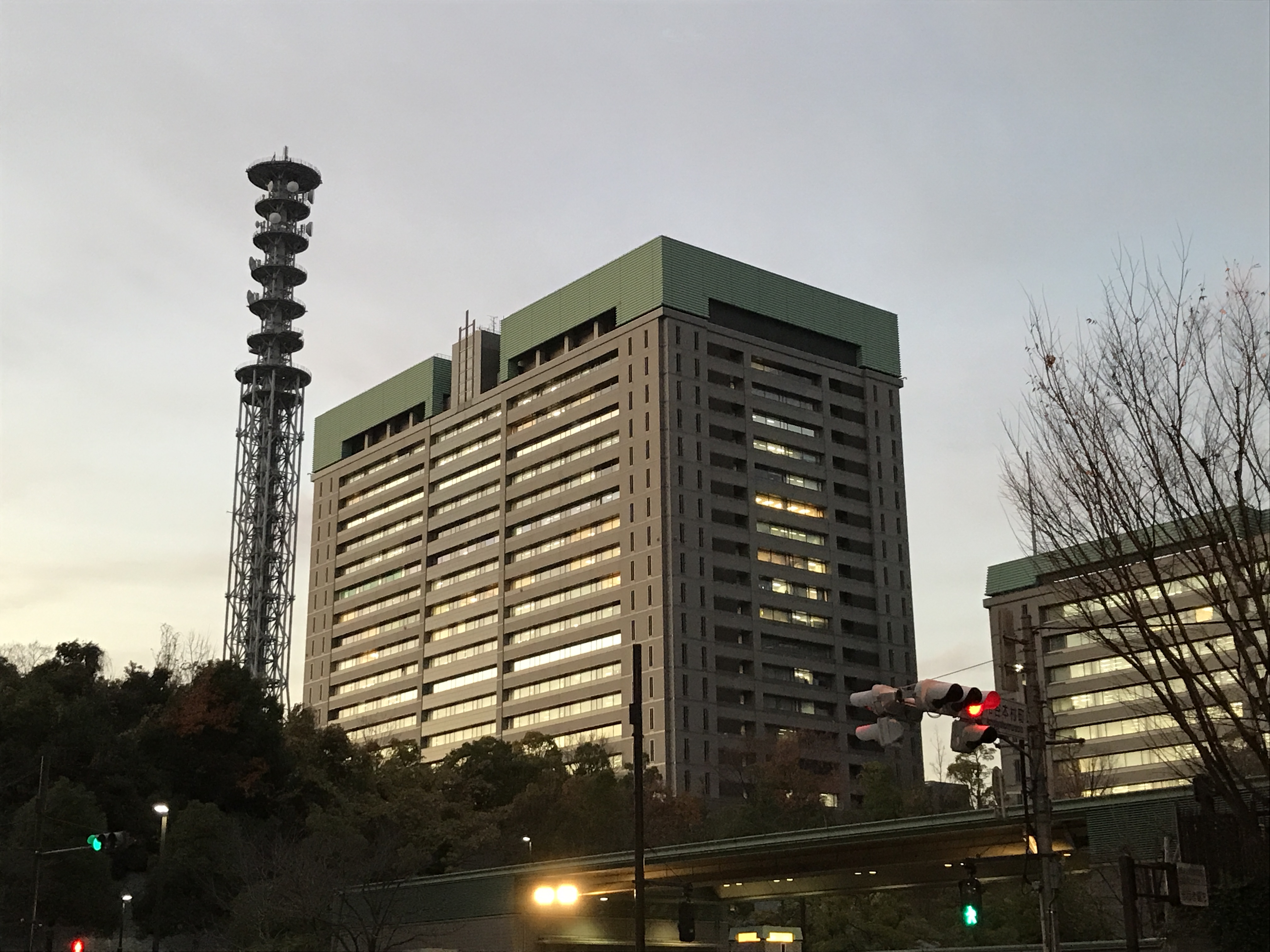 A shot of the MOD building in Ichigaya at dusk.